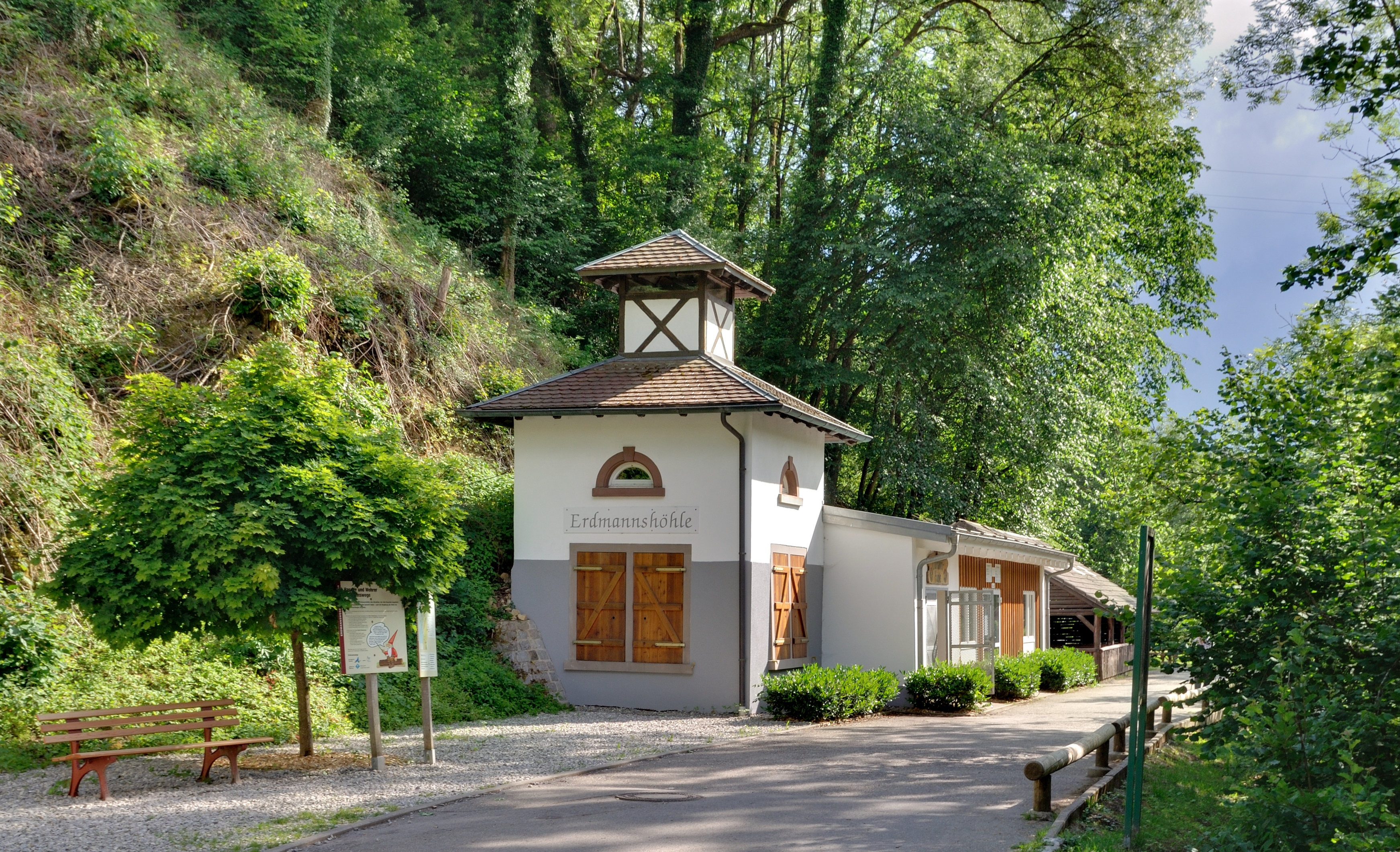 Hasel: Cave Erdmann